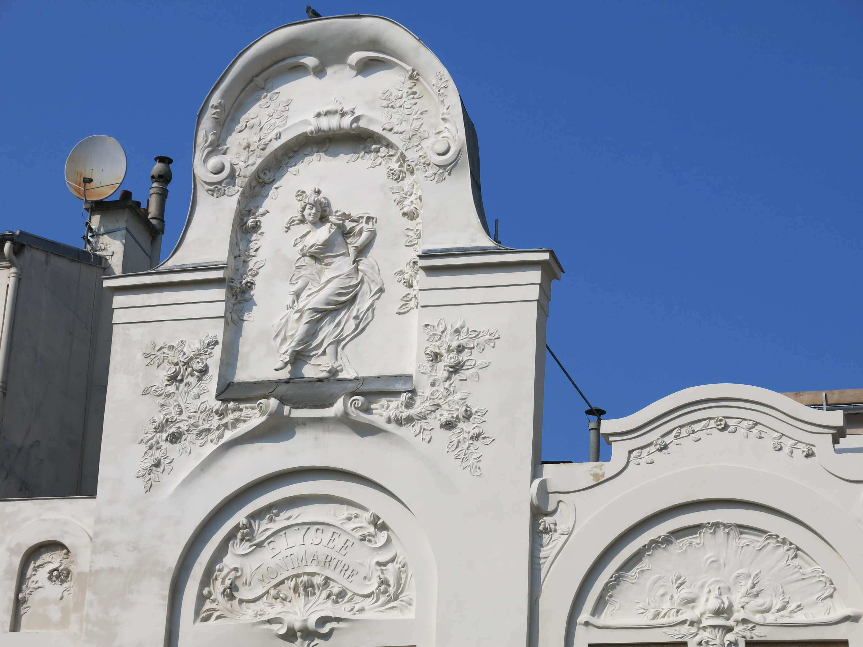 Façade of the Élysée-Montmartre : 72 Boulevard de Rochechouart, Paris 18th arr.